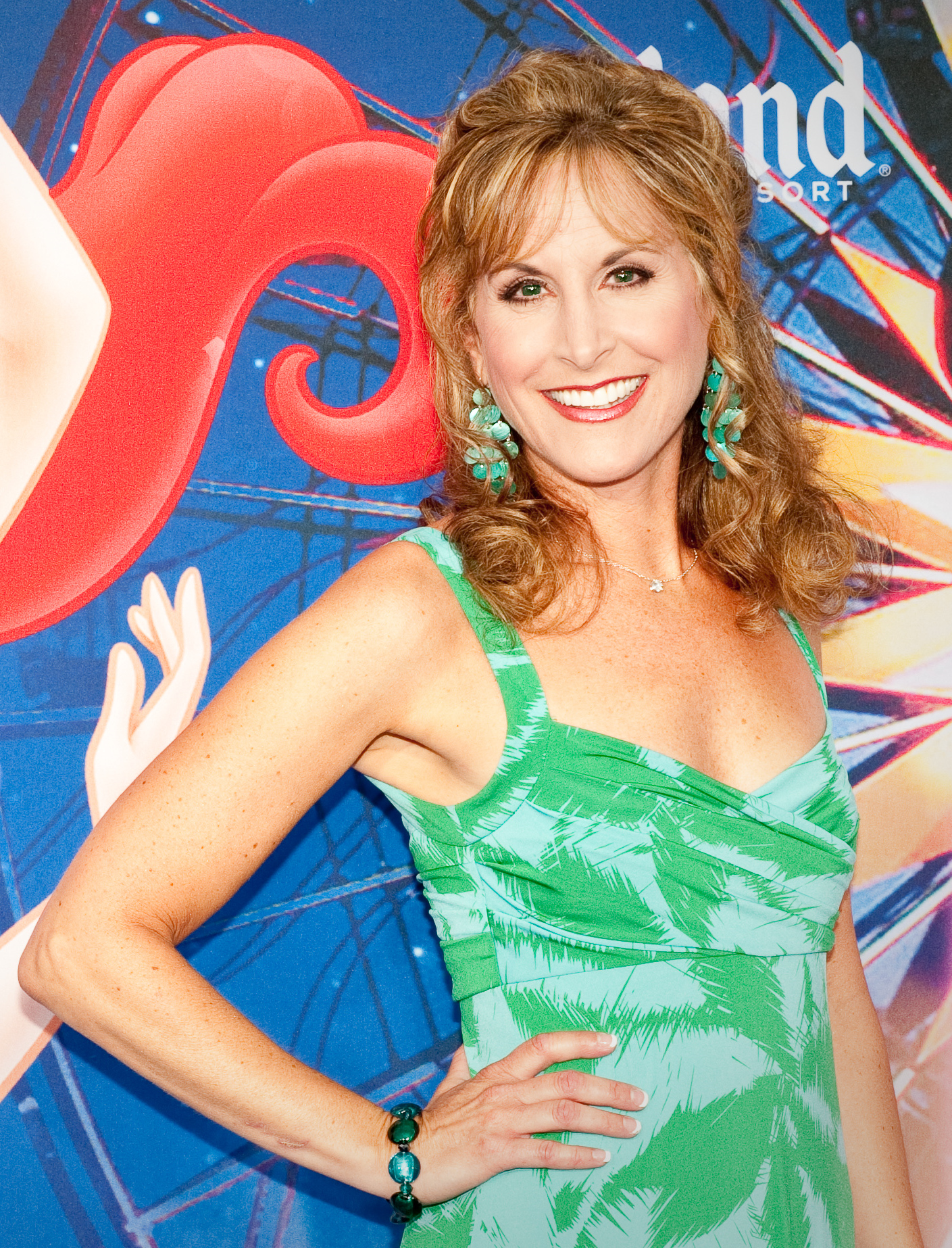 Jodi Benson at the World of Color premiere at Disney California Adventure Park, June 2010